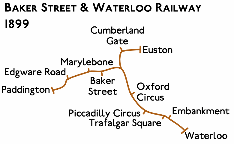 Geographic Map of the Baker Street & Waterloo Railway, 1899.